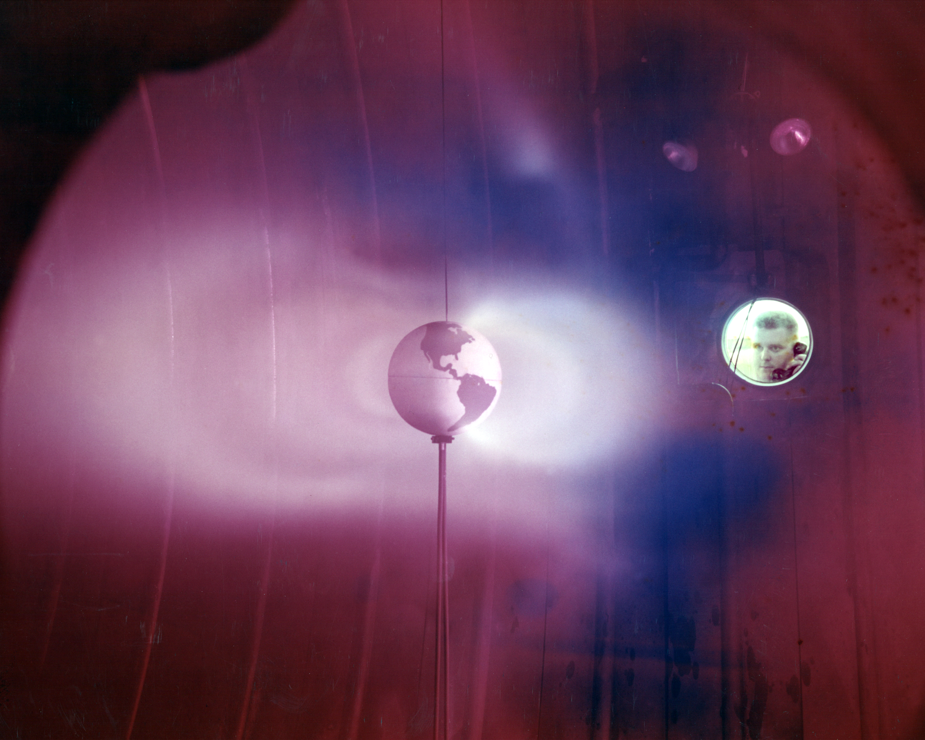 Simulated Van Allen Belts generated by plasma thruster in tank #5 Electric Propulsion Laboratory at the Lewis Research Center, Cleveland Ohio, now John H. Glenn Research Center at Lewis Field.